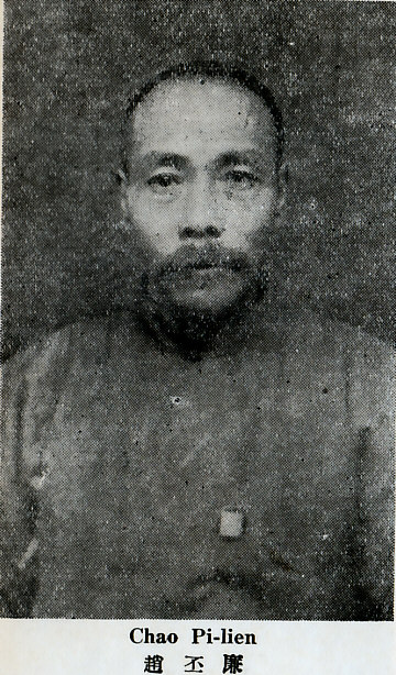 Zhao Pilian (Chao P'i-lien) (1882 - 1961)